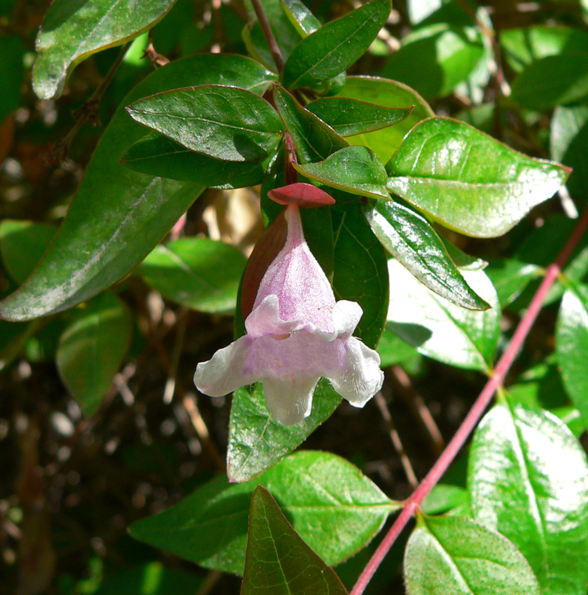 Abelia grandiflora 'Edward Goucher' at the Springs Preserve garden, Las Vegas, Nevada